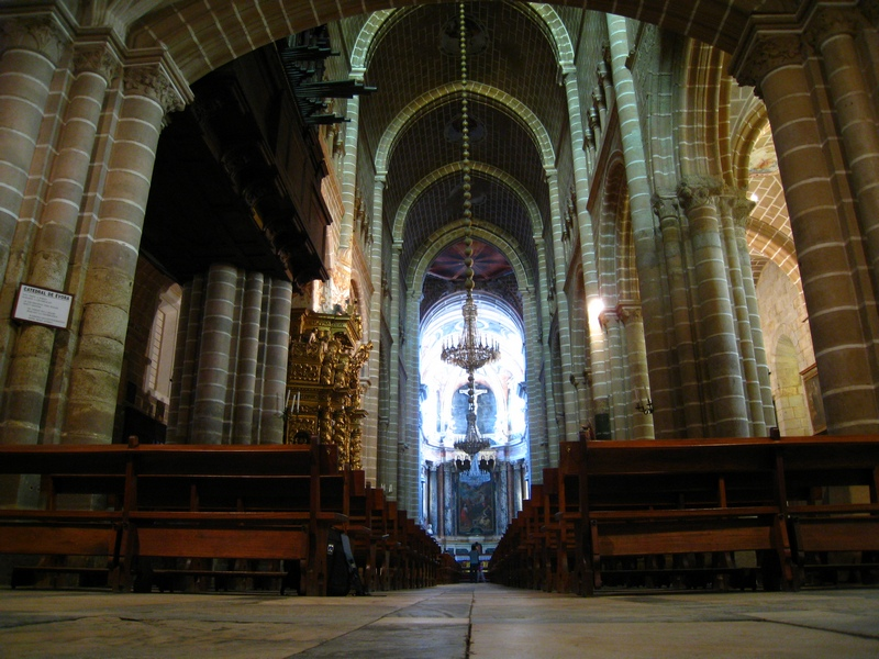 Interior of Cathedral in Evora, Portugal